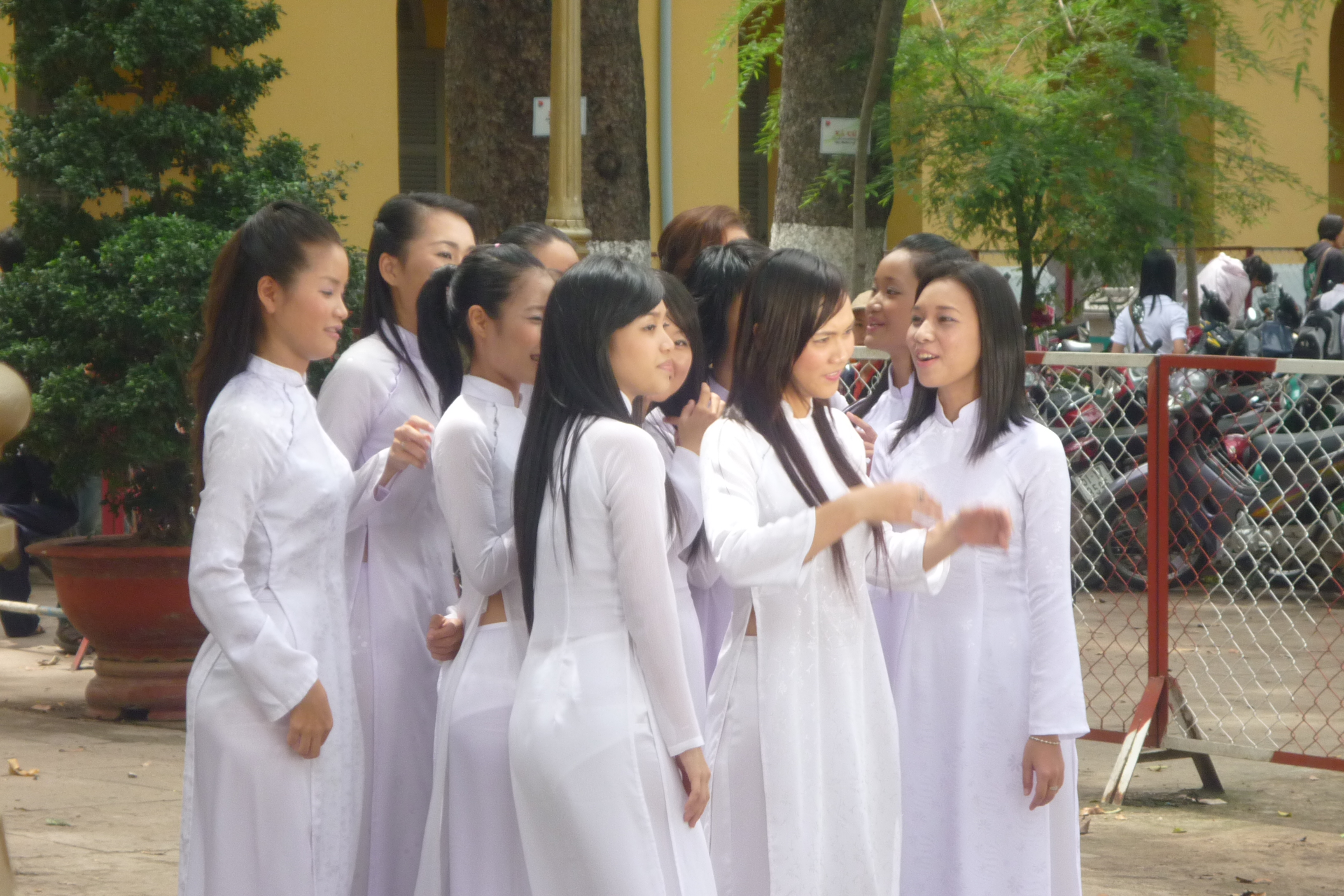 Vietnamese students, Saigon University